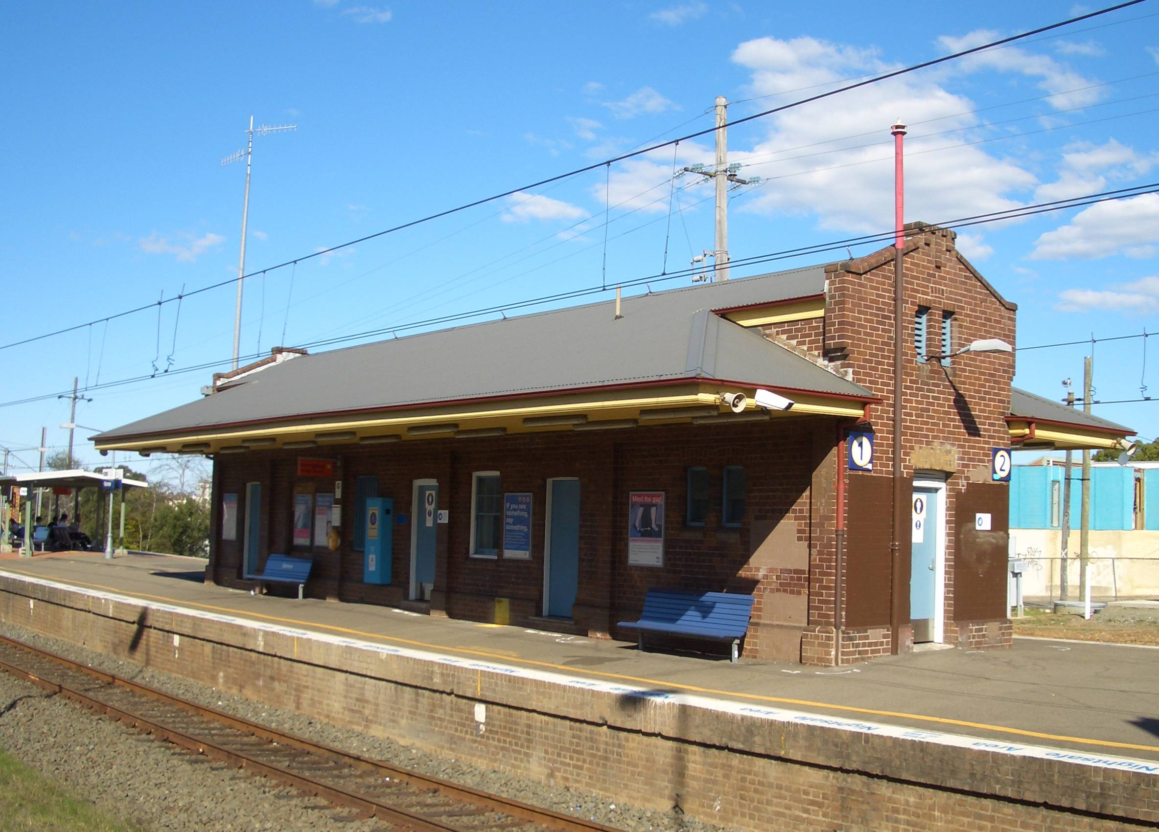 Narwee railway station, Sydney, Australia.